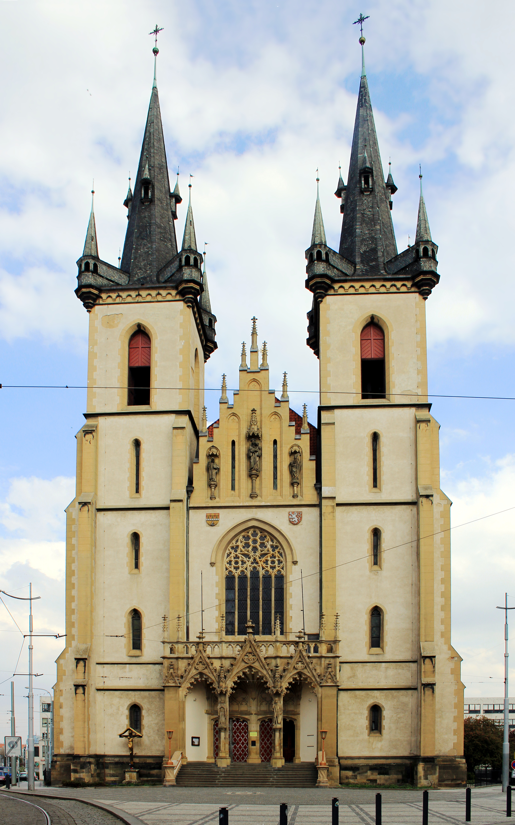 Church of Saint Anthony of Padua, in Prague , Holešovice, Czech Republic